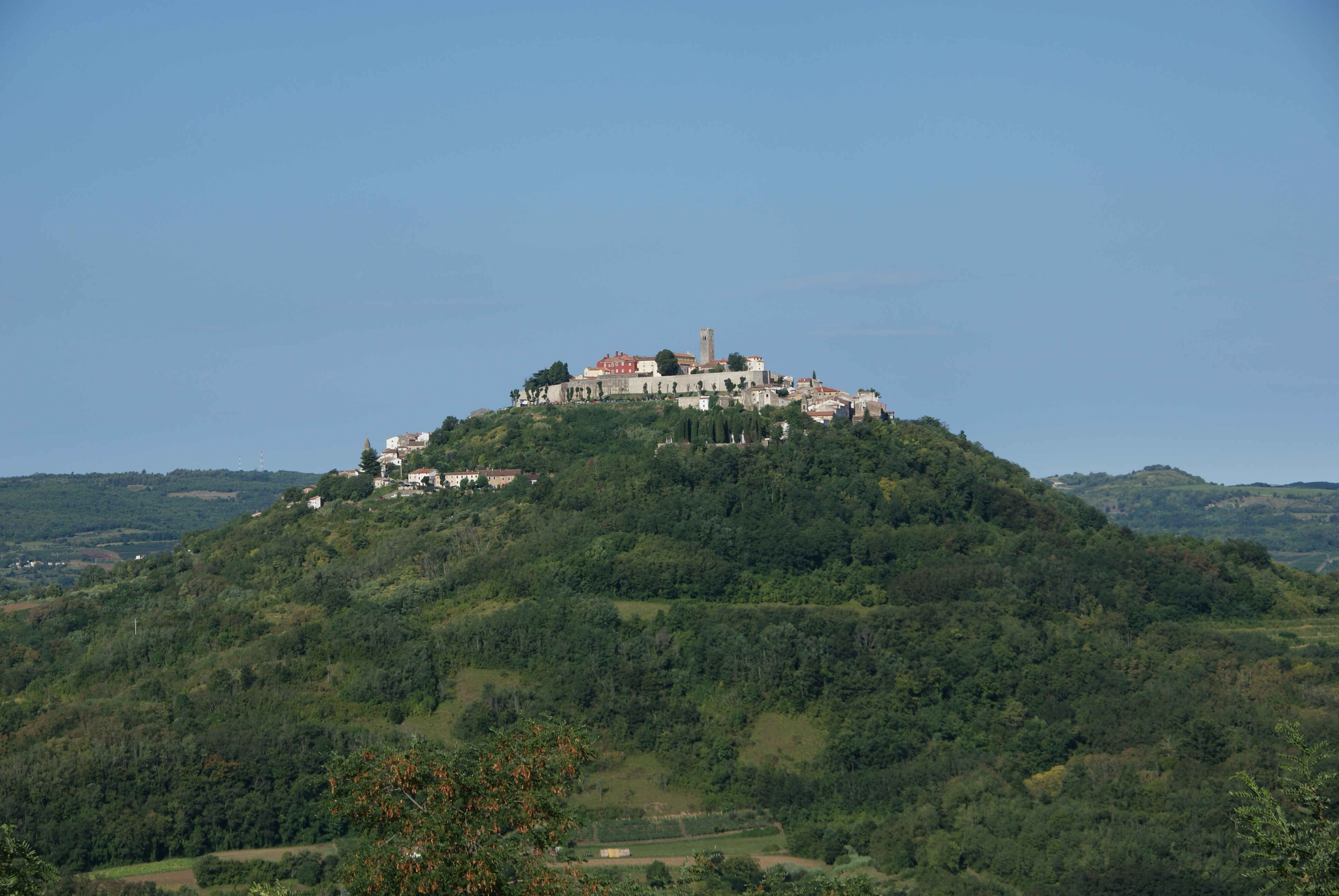 Motovun, Istria, from East